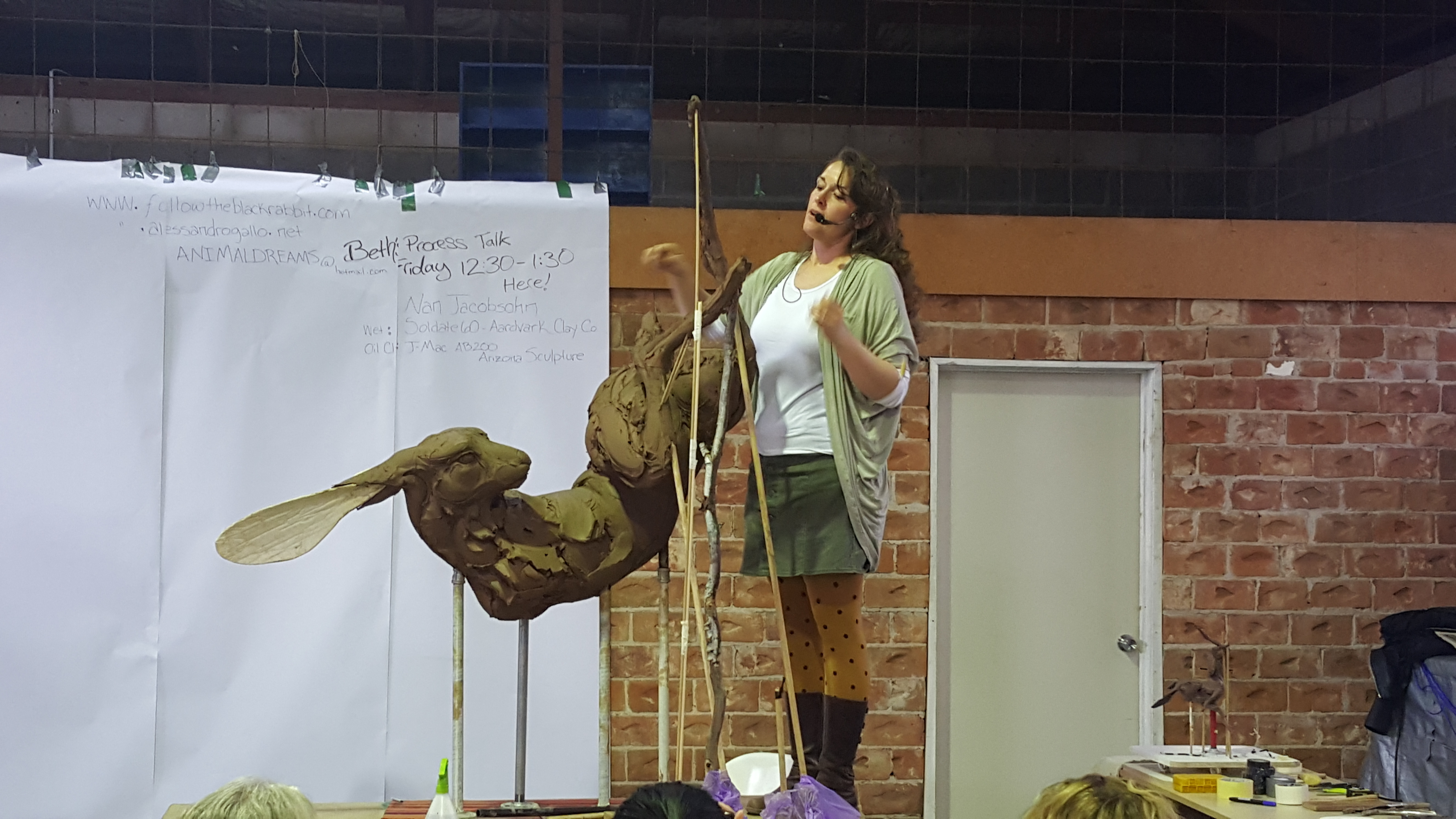 Beth Cavener demonstrating dismantling her work at Clay Gulgong 2016 (Triennial ceramics festival in Gulgong, NSW)